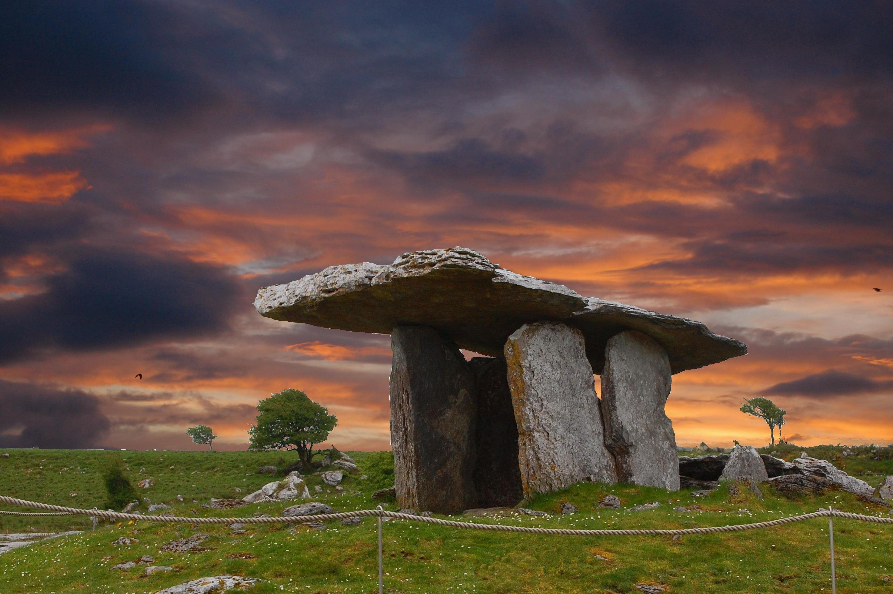 The Burren, County Clare, Ireland. Note: This image has a falsified sky (the transitions are quite obvious if you look carefully. It is not appropriate to use in the encyclopaedia.